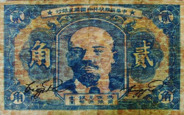 The Bank of Soviet bank note. 中华苏维埃国家银行纸币.